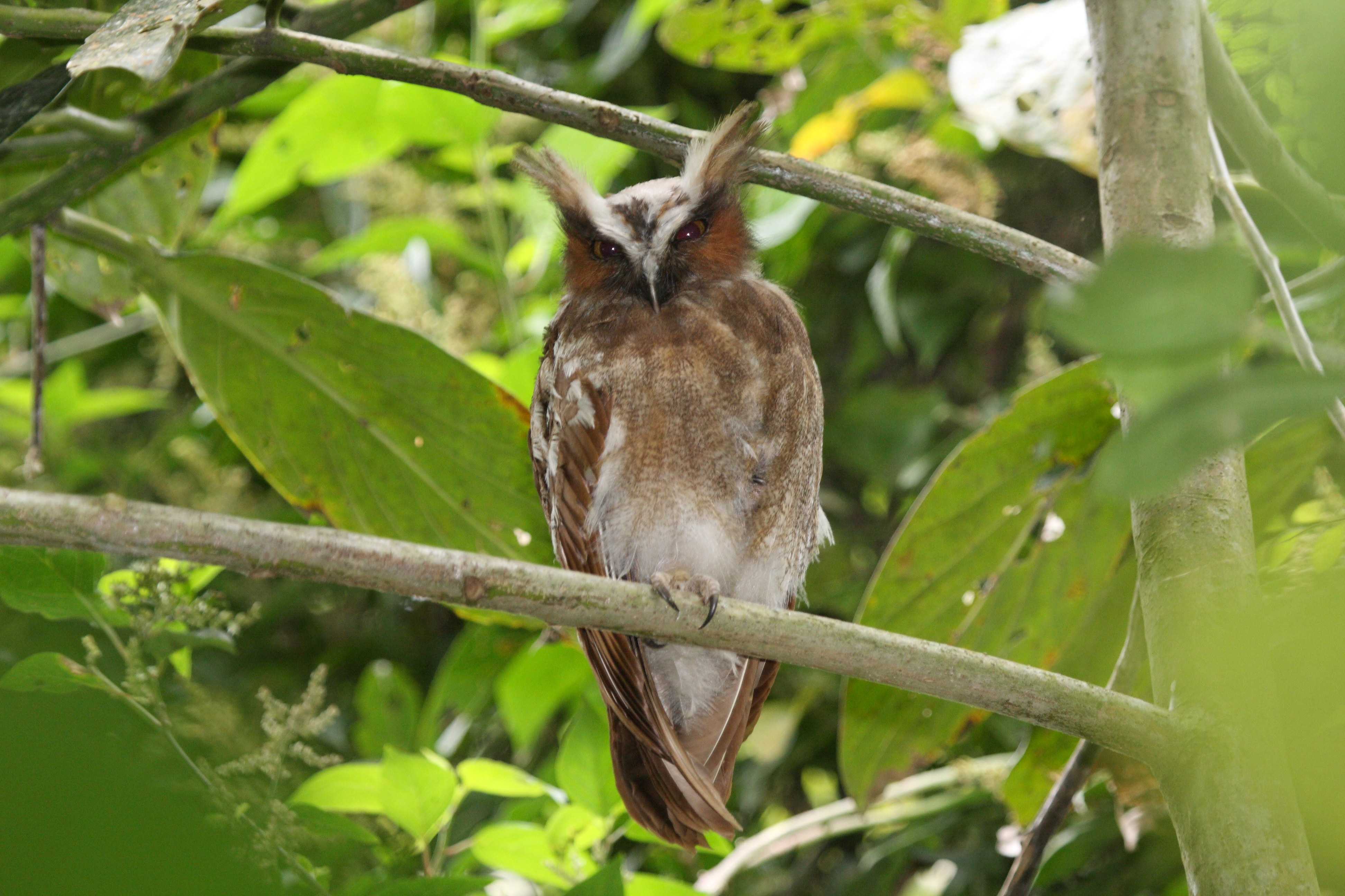 A Crested Owl in Panama.